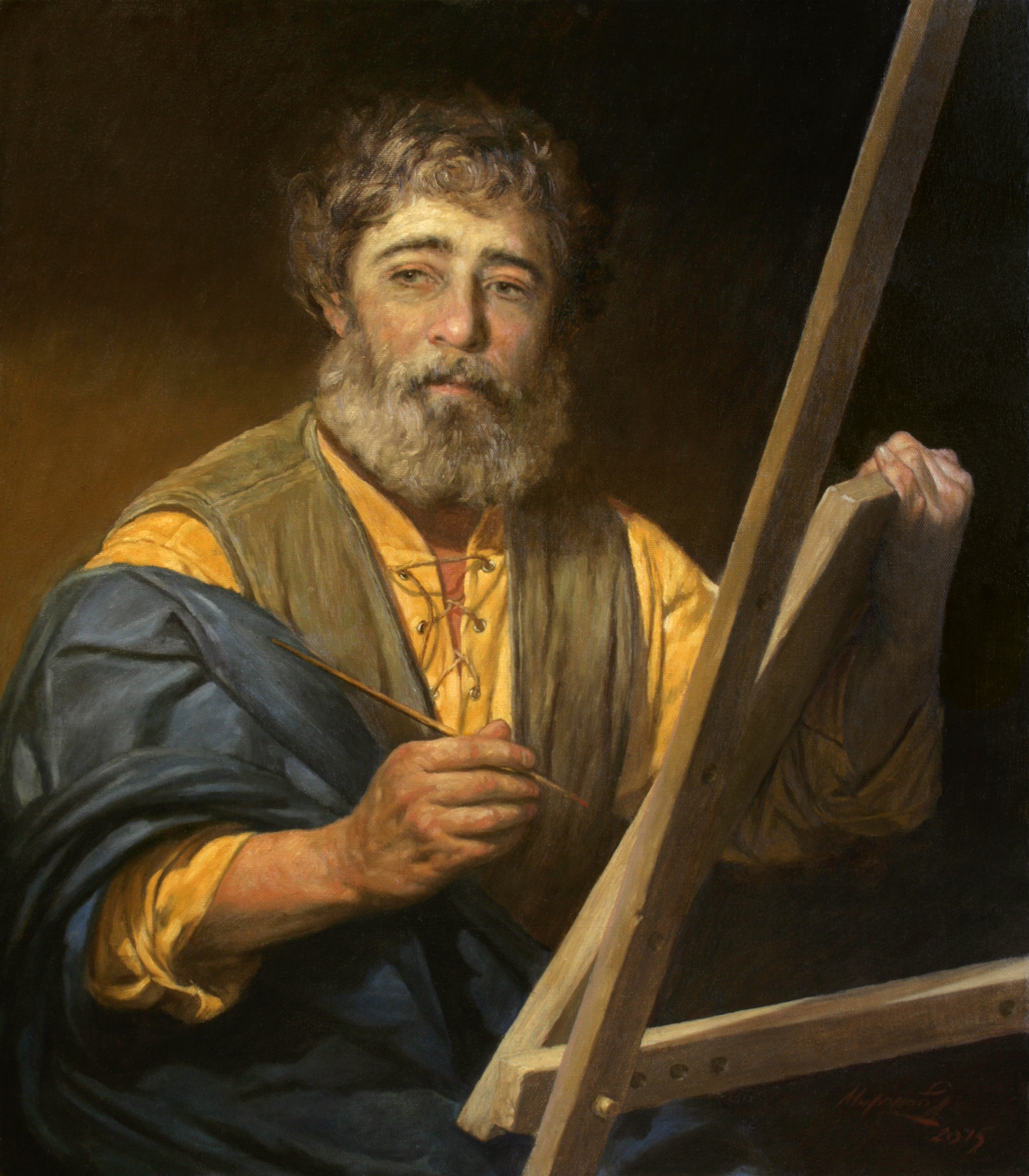 The Apostle Luke. 2015. Oil on canvas, 80×70. Artist Andrey MironovAzərbaycanca: Həvari Luka. 2015. Kətan, yağ, 80×70. Rəssam Andrey MironovShqip: Apostulli Luka. 2015. Vaj në kanavacë, 80×70. Artisti Andrey Mironov